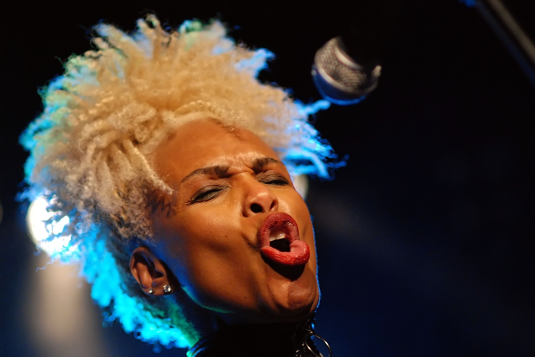 Joyce Kennedy